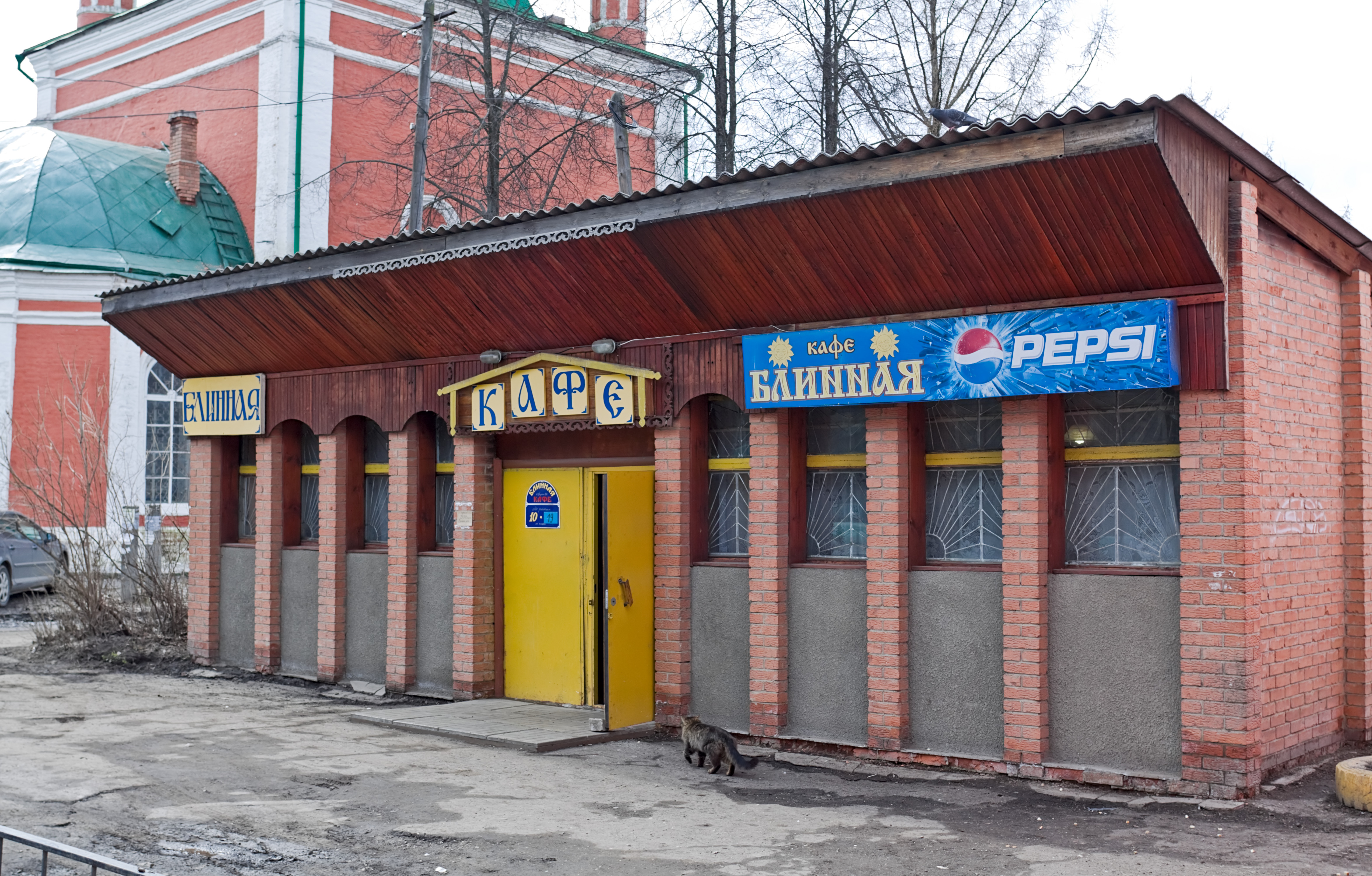 Pancake cafe on Soviet street in Pereslavl